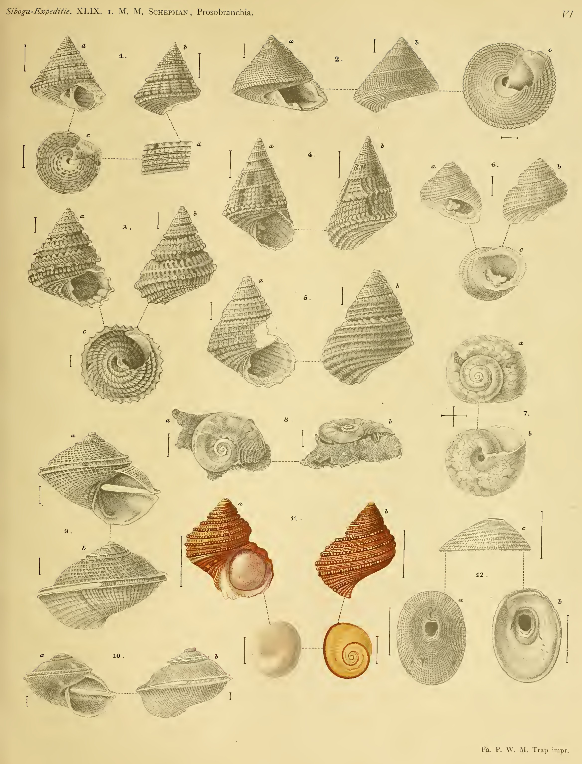 Plate from Images from Schepman M. M. (1908). "The Prosobranchia of the Siboga Expedition. Part I, Rhipidoglossa and Docoglossa, with an appendix by R. Bergh". Uitkomsten op zoologisch, botanisch, oceanografisch en geologisch gebied verzameld in Nederlandsch Oost-Indië 1899–1900 aan boord H. M. Siboga, Monographie, E. J. Brill, Leyden, 49a: 107 pp., 9 plates.